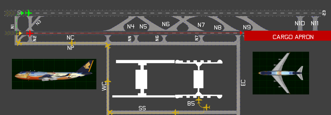 Diagram, north side and runway 05 Chiang Kai-shek International Airport (now Taiwan Taoyuan International Airport) and route of Singapore Airlines Flight 006